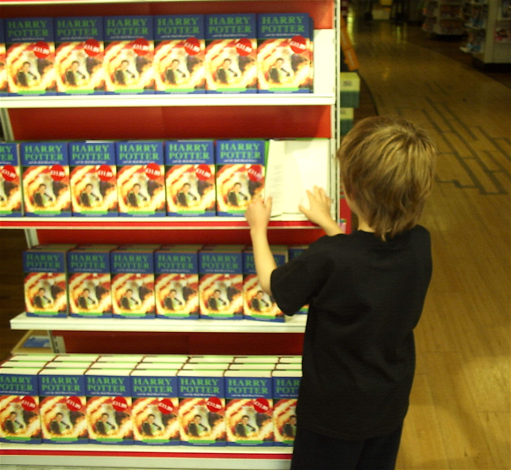 A boy and a bookcase with "Harry Potter and the Half Blood Prince"